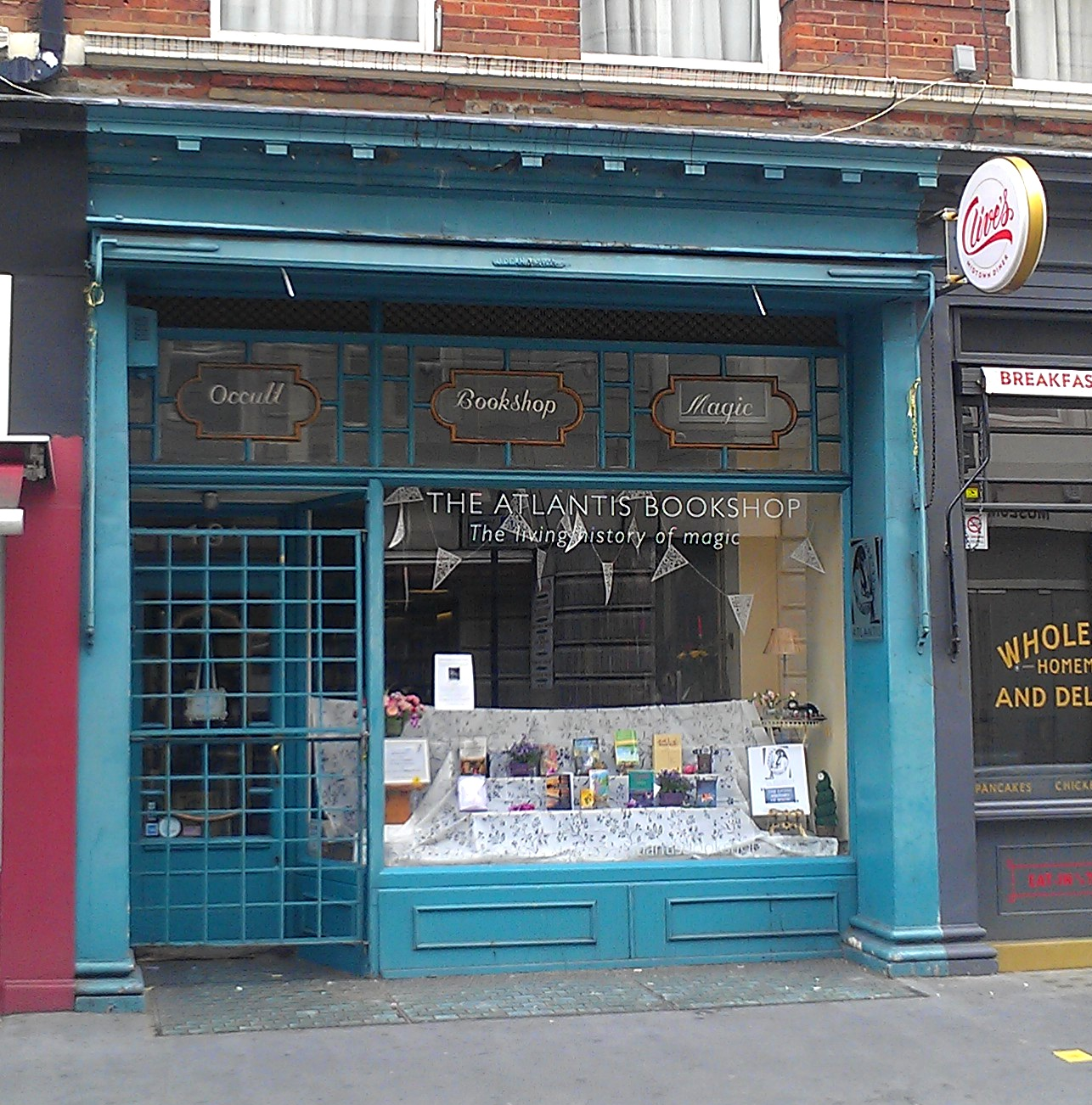 Atlantis Bookshop, a famous store for esoteric-themed publications, in Museum Street, Bloomsbury, London Borough of Camden.